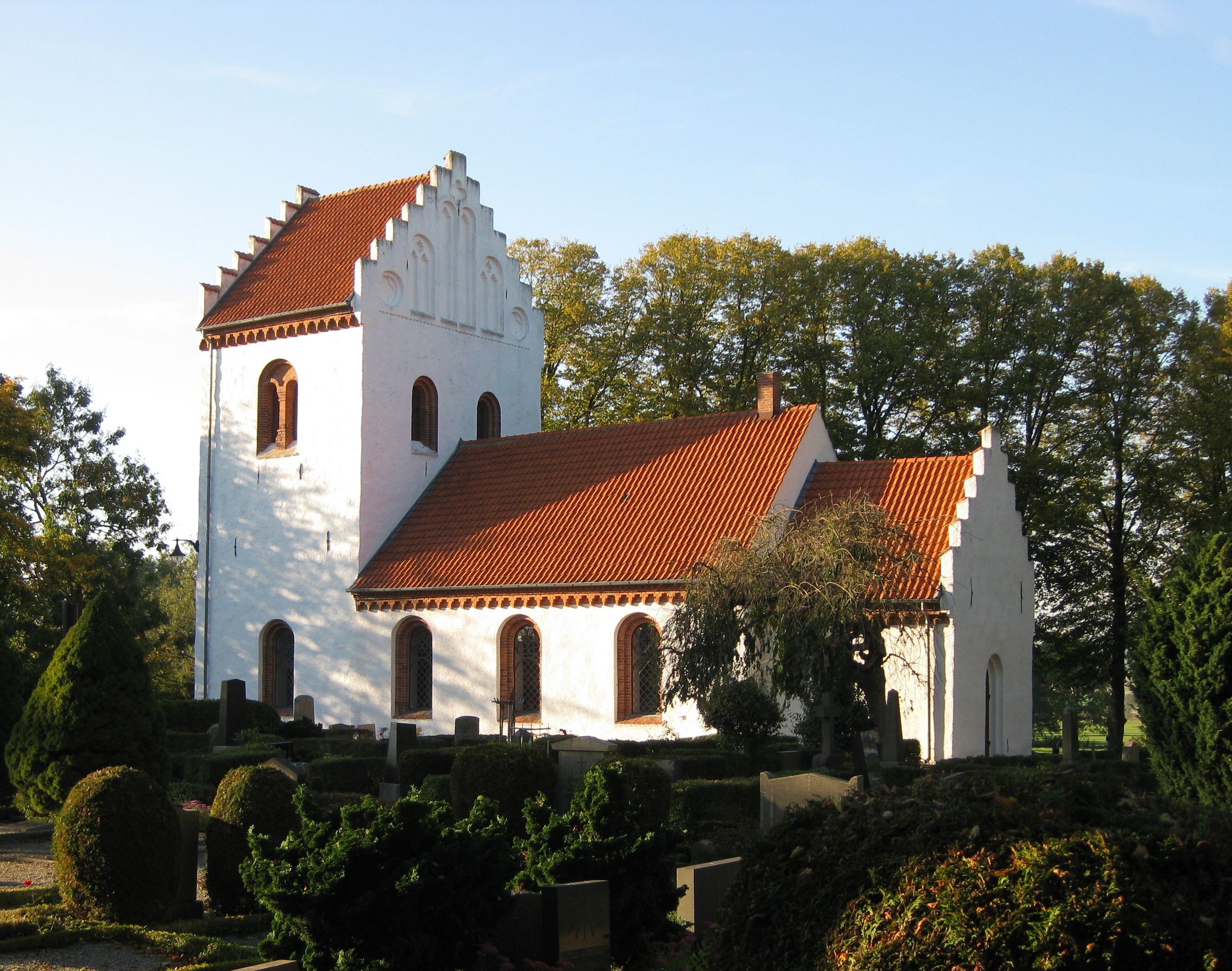 Hurva church, Scania, Sweden